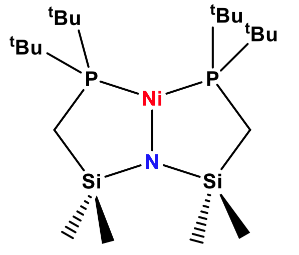 (PNP)Ni complex used for cleaving C=O bond in CO2